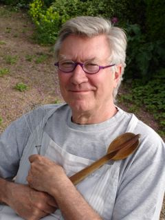 Actor and author Robin Ellis Photo by Meredith Wheeler